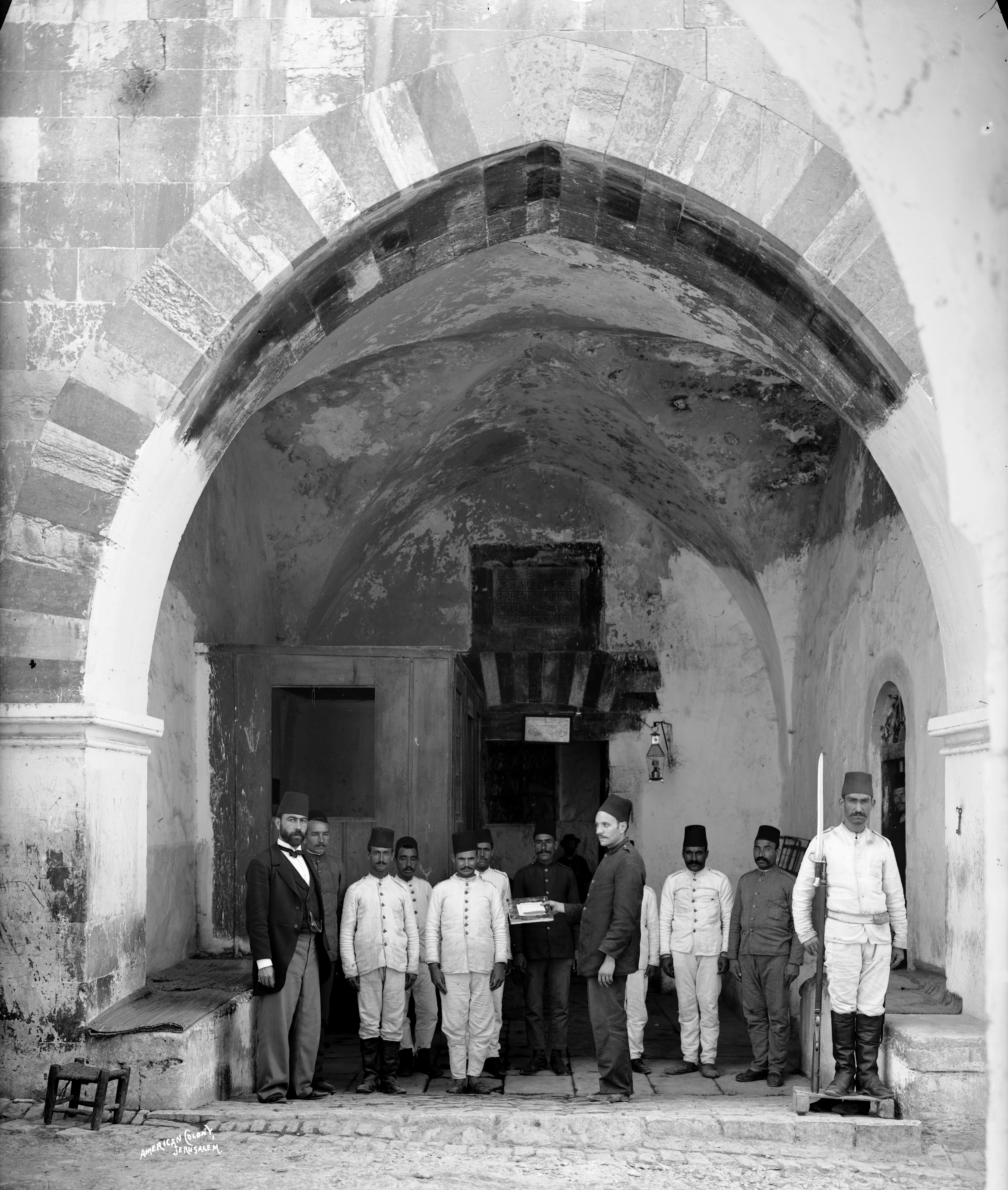 Costumes and characters, etc. Entrance to the prison, Jerusalem / American Colony, Jerusalem.